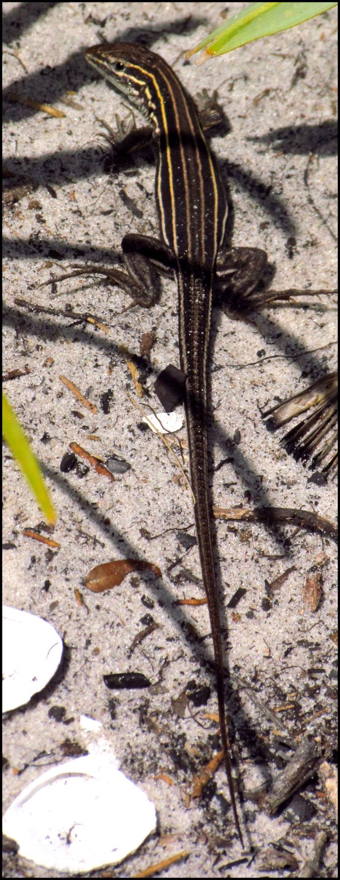 Six-lined Racerunner (Cnemidophorus sexlineatus sexlineatus), Indiatlantic, Florida